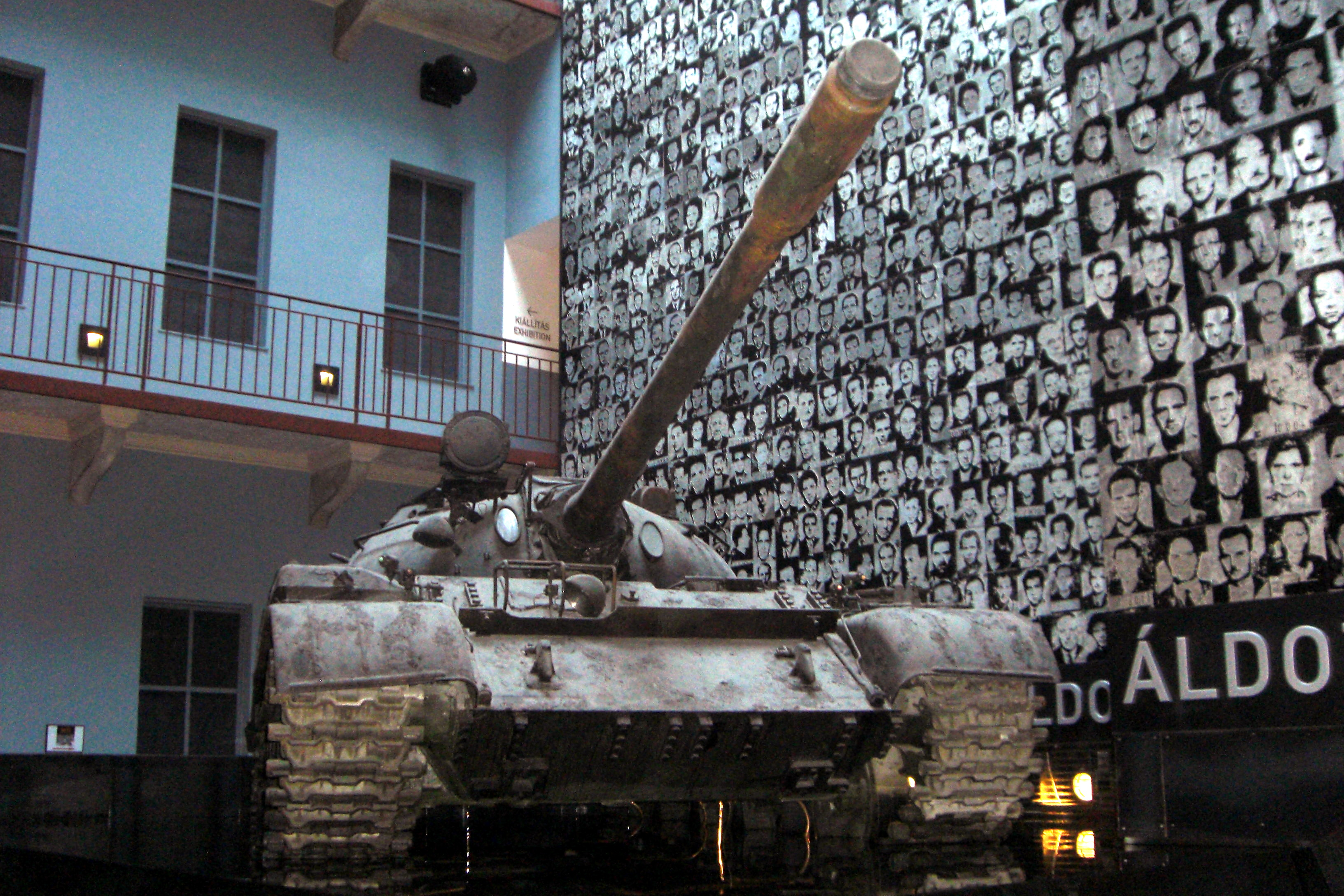 a sad museum, but beautifully done; i'd highly recommend it.